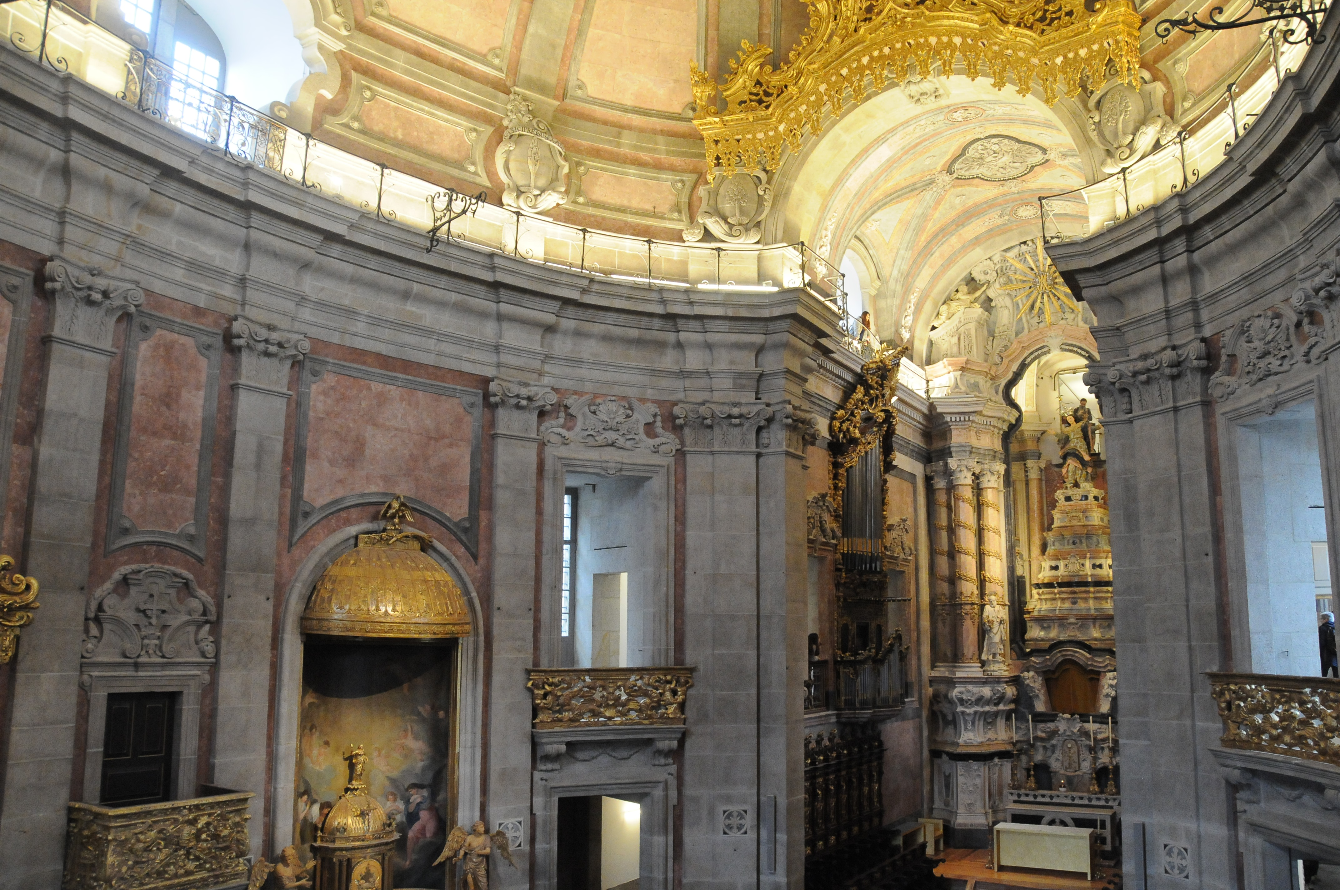 Interior of Igreja dos Clérigos, Porto Portugal.